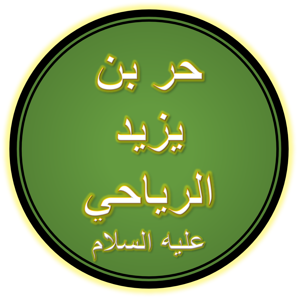 Arabic text with the name of Hurr bin Yazid Ar-Riyahi